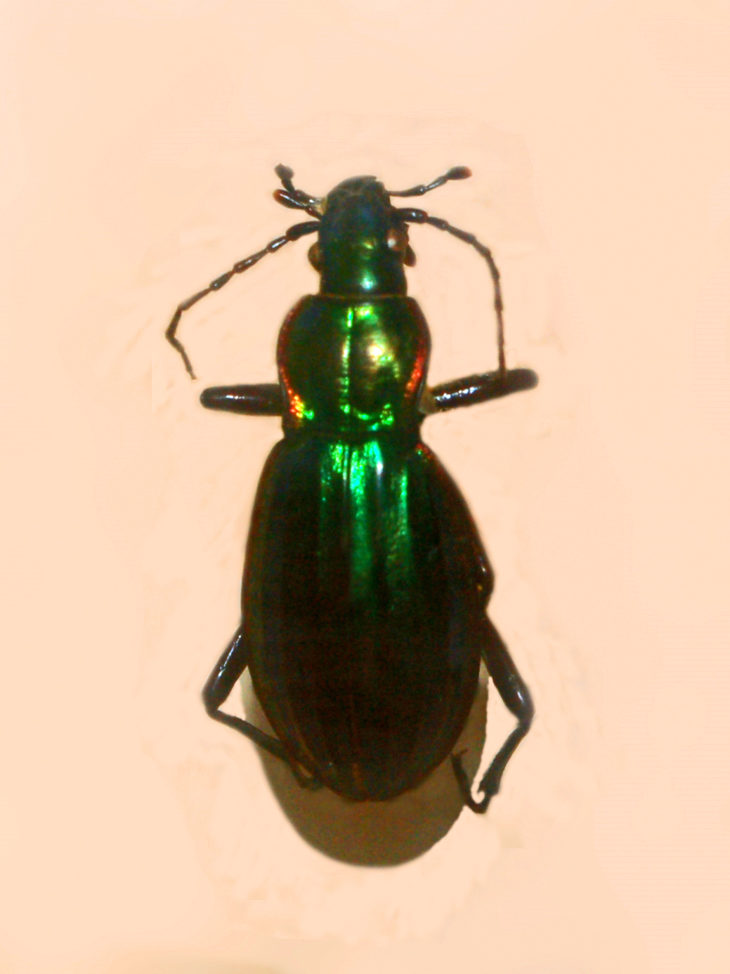 Carabus solieri from Italy